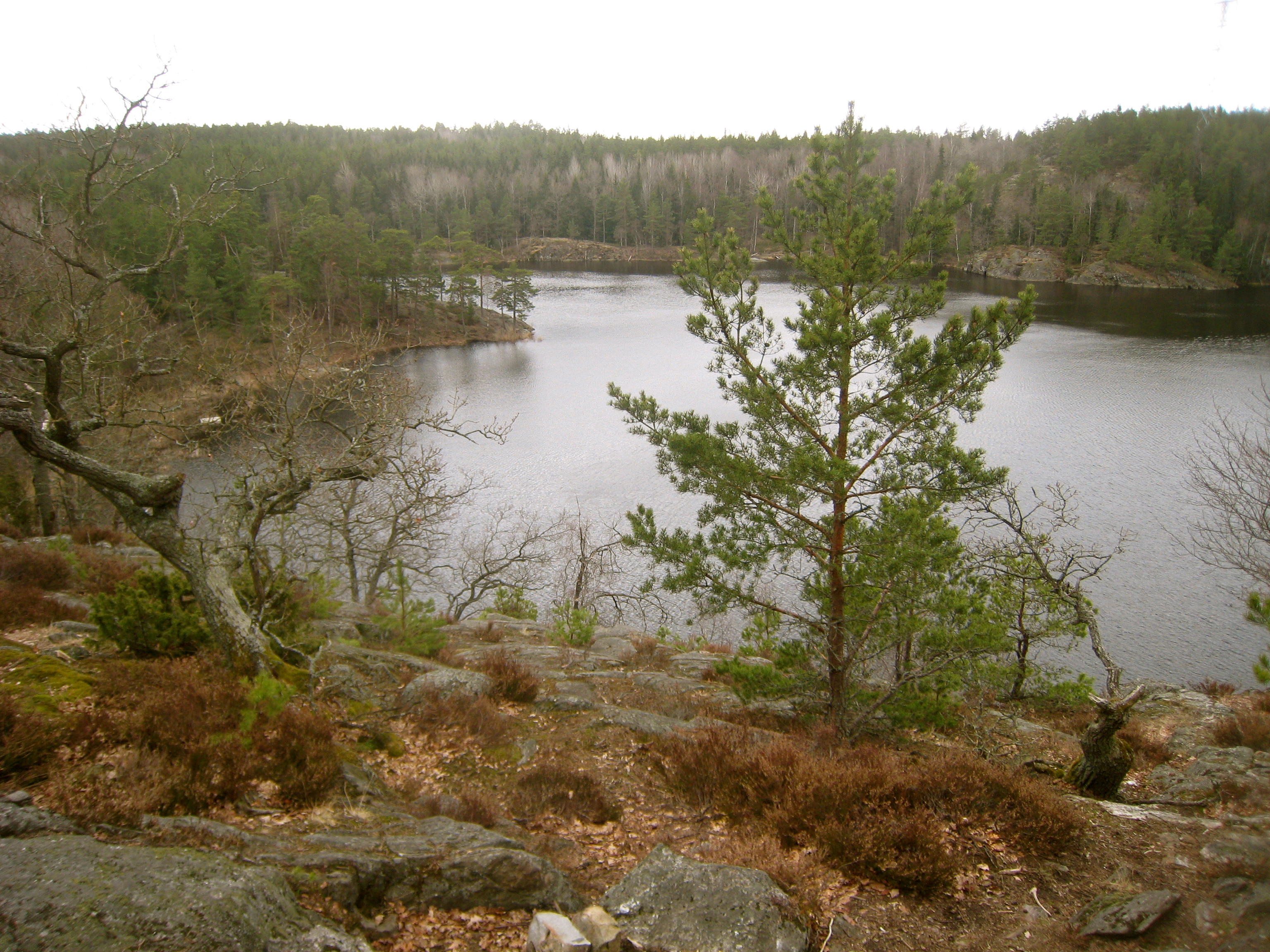 Ulvsjön.